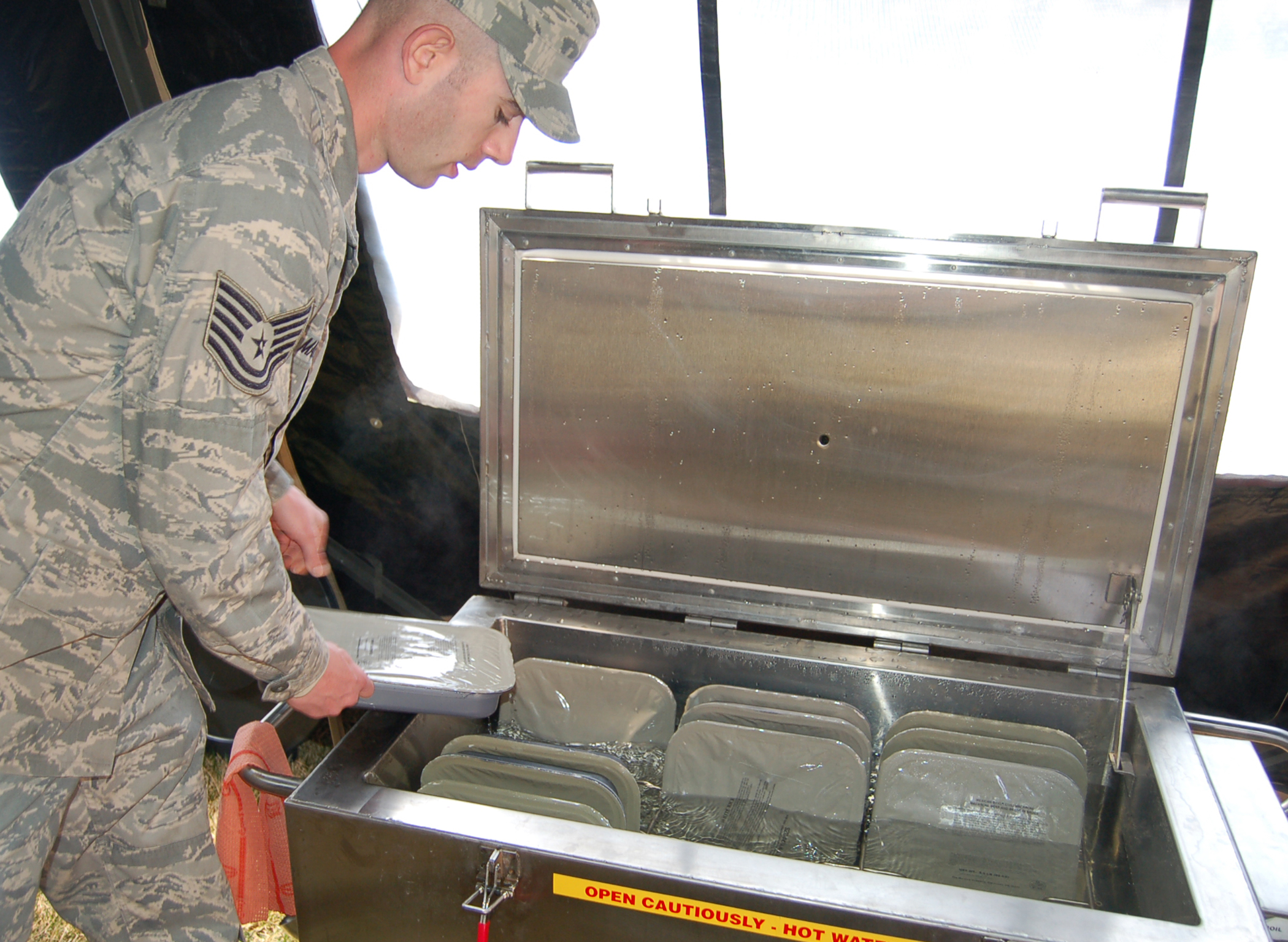 A Unitized Group Ration, or UGR, is a a hybrid meal kit designed to feed a group for one meal. Shown is the tray-based heat and serve (T-rat) form, heated by hot water immersion when a field kitchen is not available. Each UGR serves about 25 people.